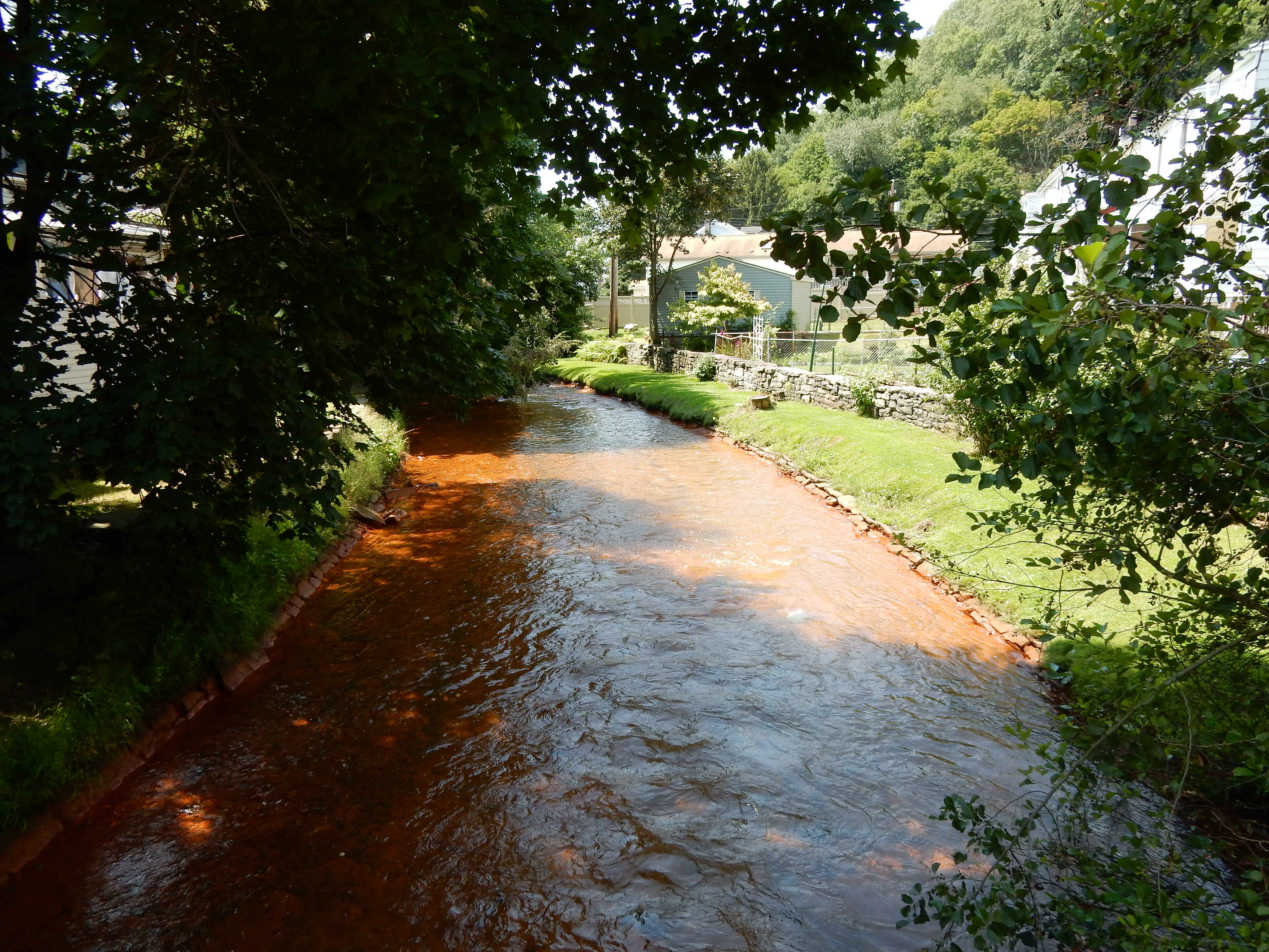 Mahanoy Creek in Girardville borough, Schuylkill County, Pennsylvania. View from North 2nd St., looking east.